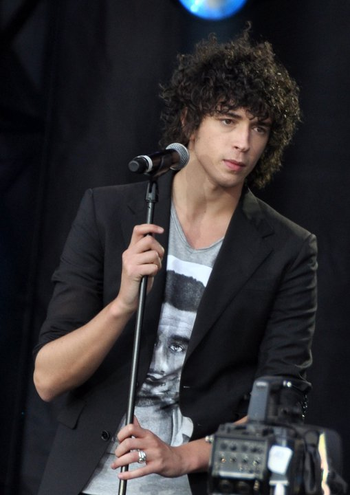 Julian Perretta performing in Paris, France, at a concert organized by SOS-Racisme